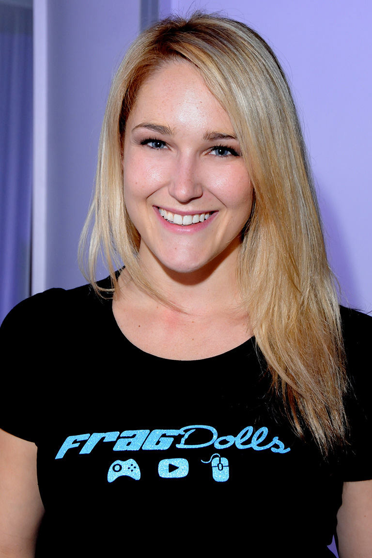 Frag Doll Rachel Quirico at the E3 Expo, Los Angeles, California on June 12, 2014 - Photo by Glenn Francis of